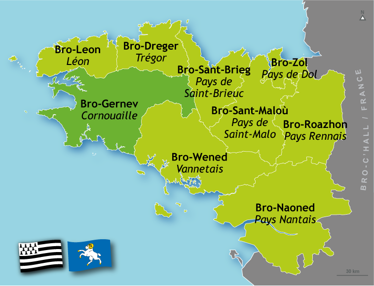 Position's map of Cornouaille (Brittany)